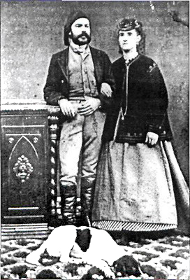 Photo of Georg Silagi and his wife